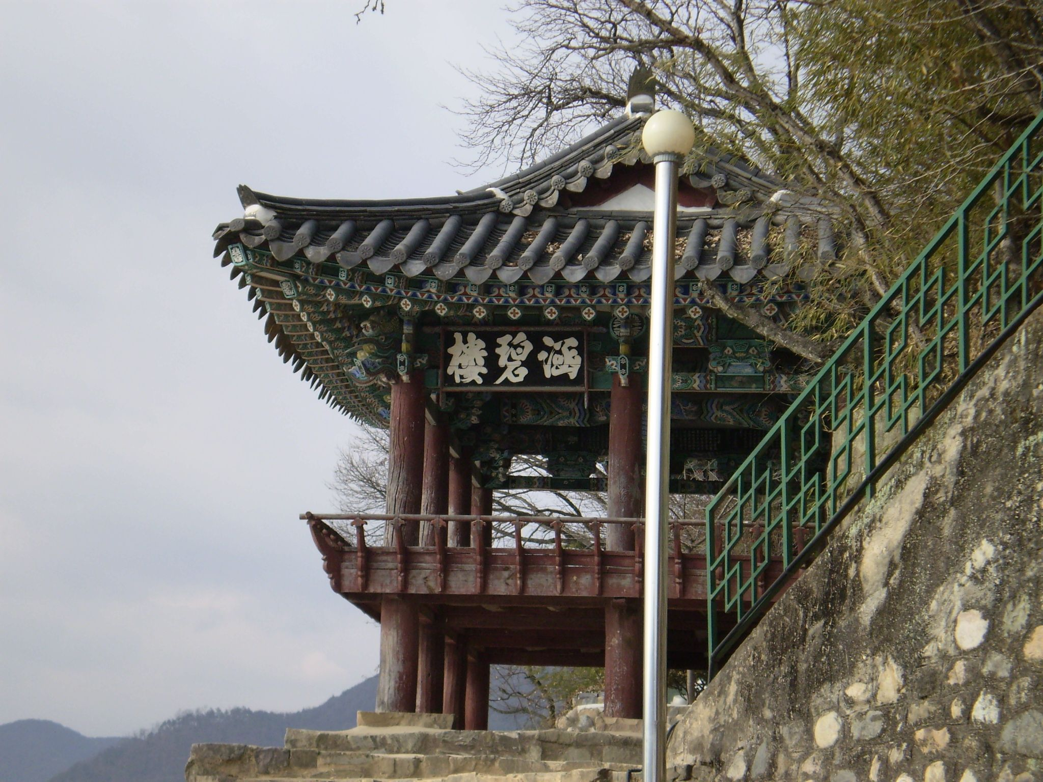 The Hambyeongnu (함벽루) pavilion in Hapcheon, Gyeongsangnam-do, South Korea.